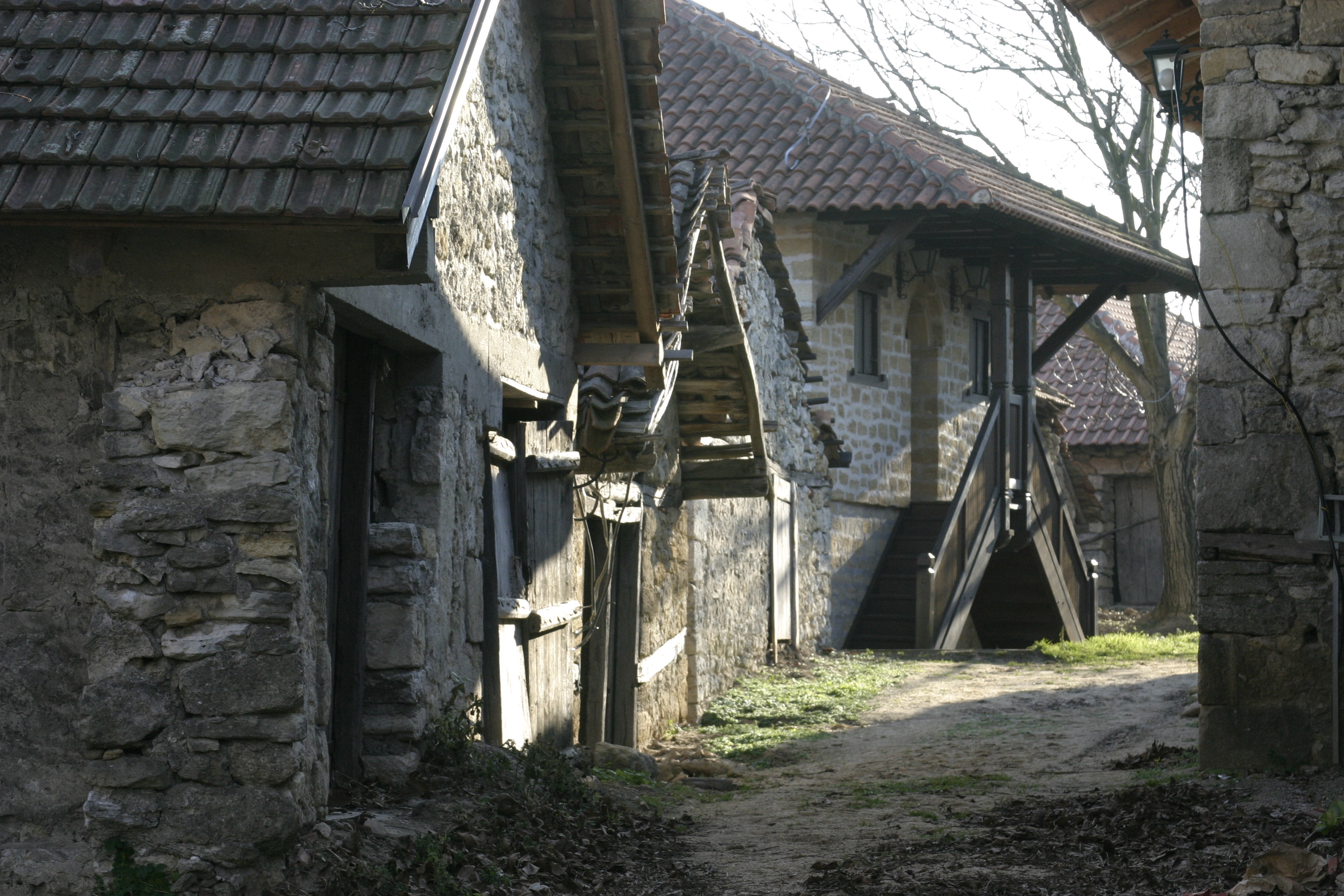 Streets of Rajac, Serbia